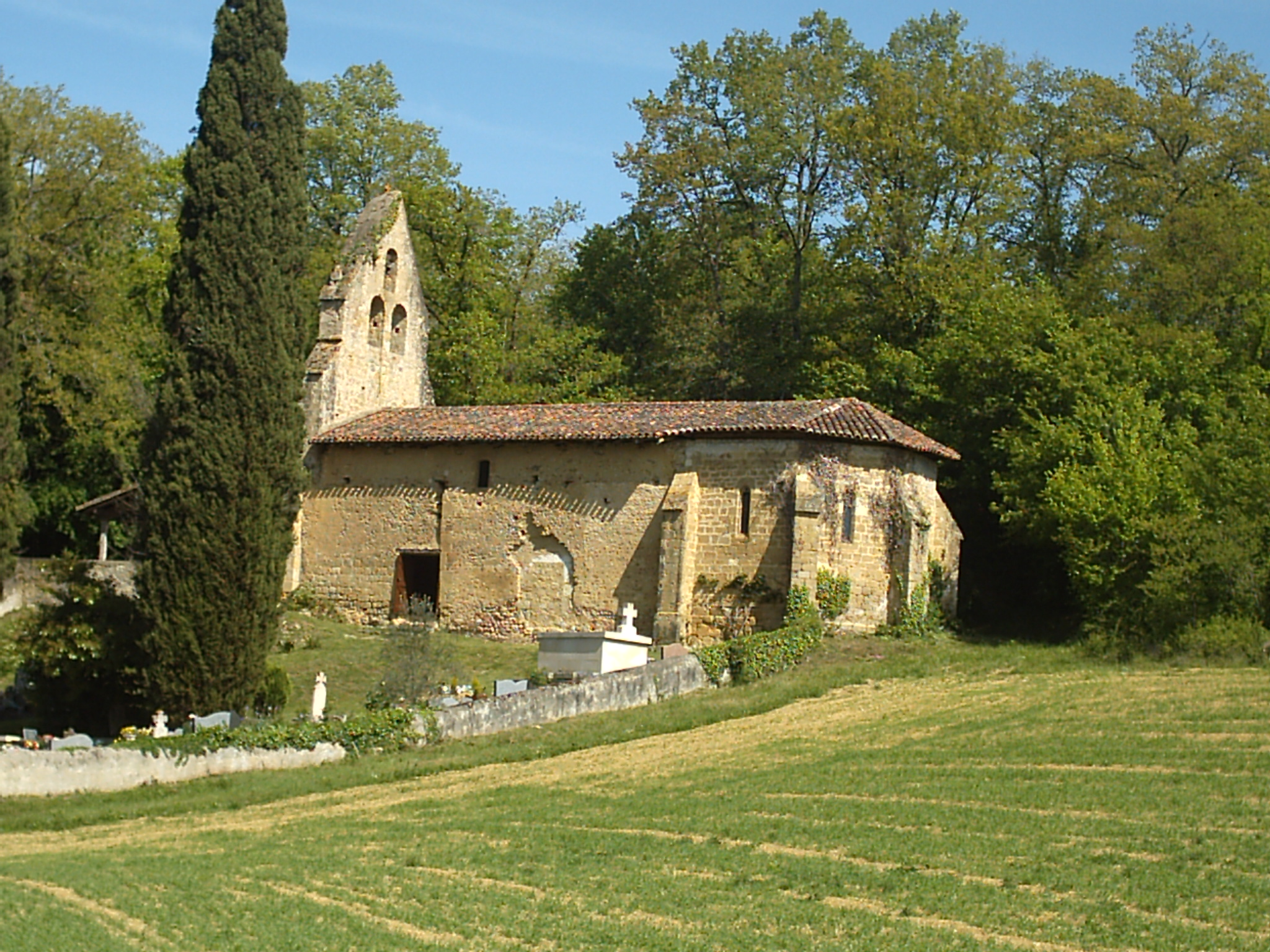 The Chapel of Notre Dame de Bretous, Saint-Arailles, Gers, France